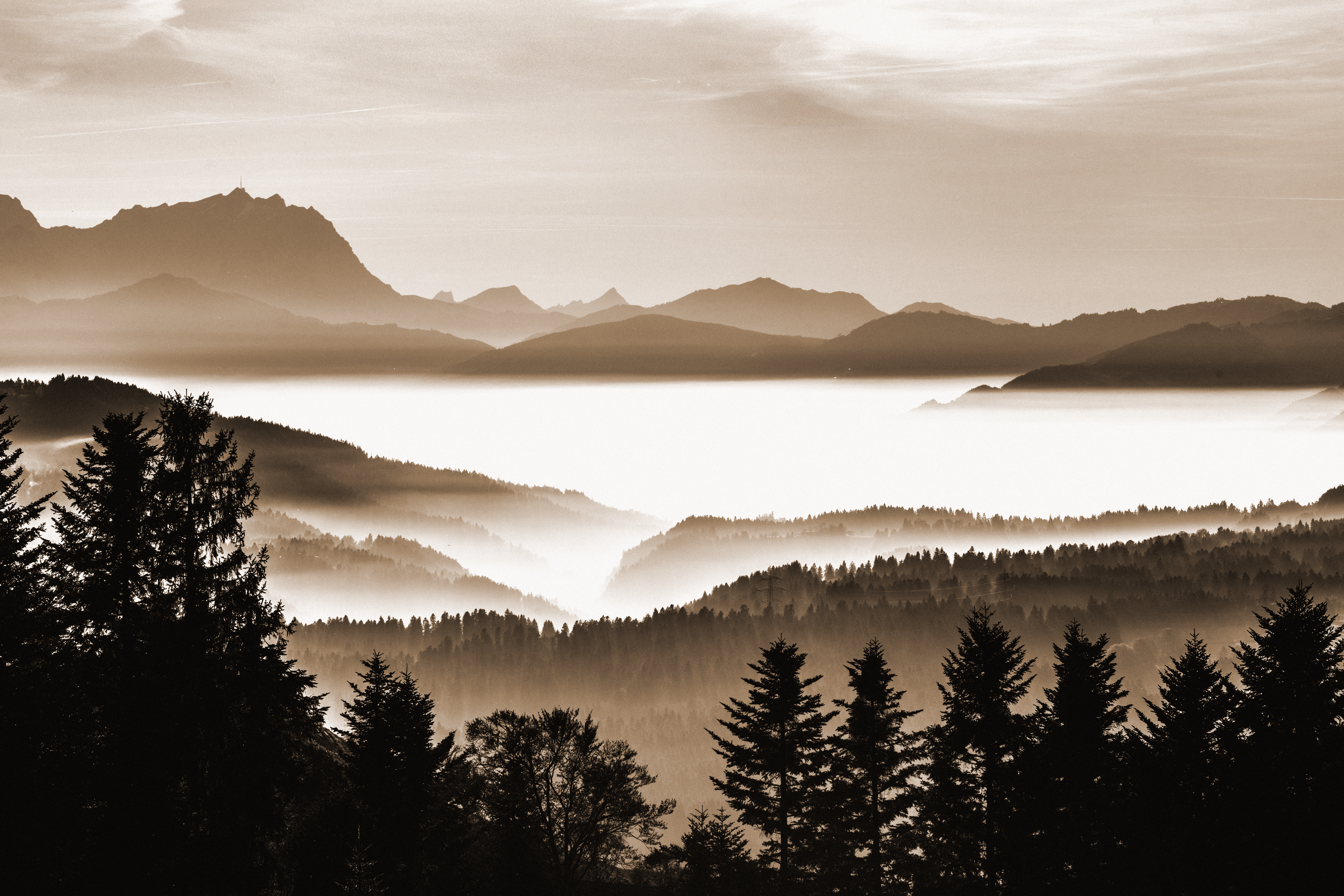 Fog. View from Sulzberg, Austria, towards the Mountains of Switzerland.